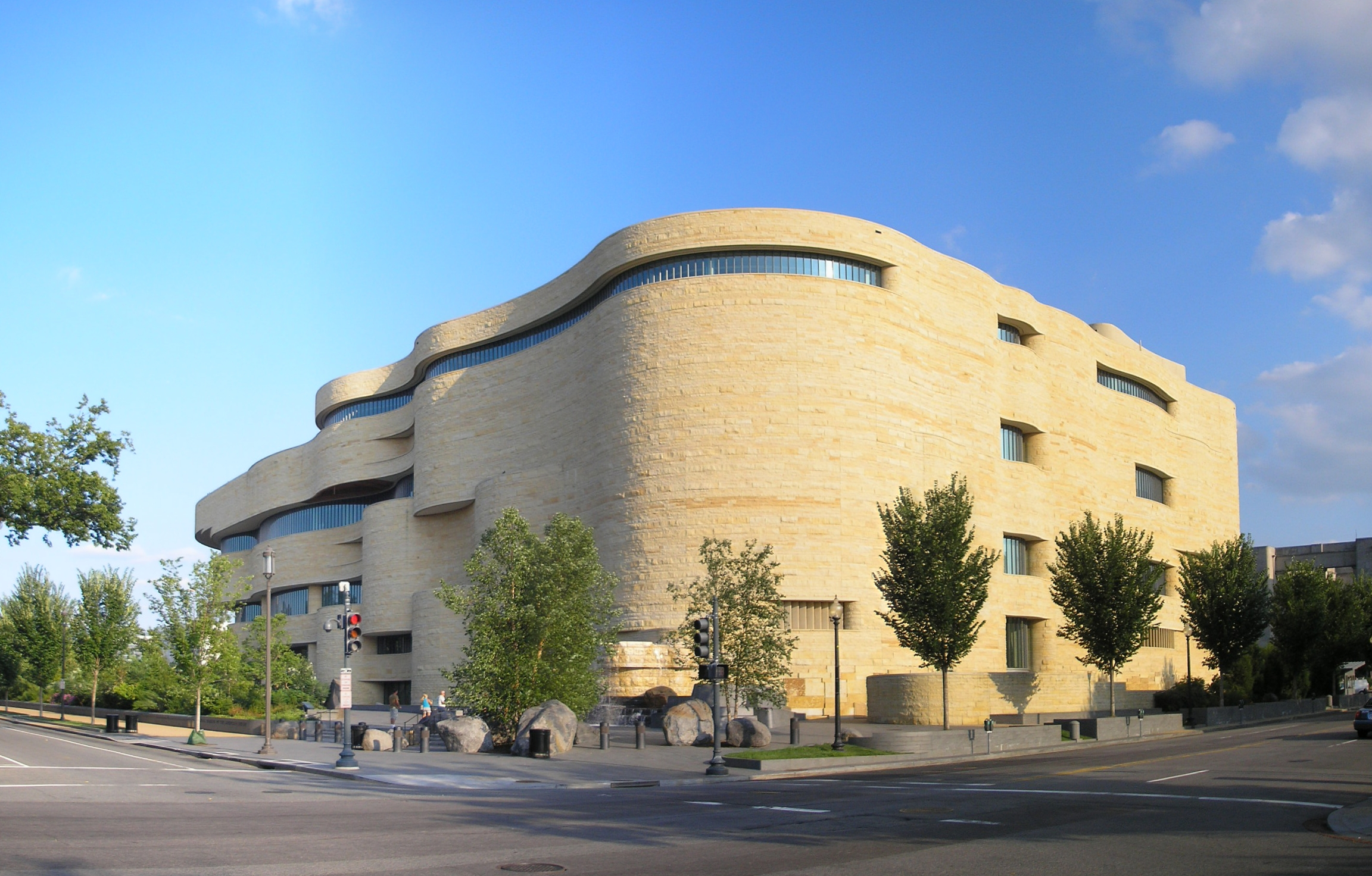 The National Museum of the American Indian in Washington, D.C..